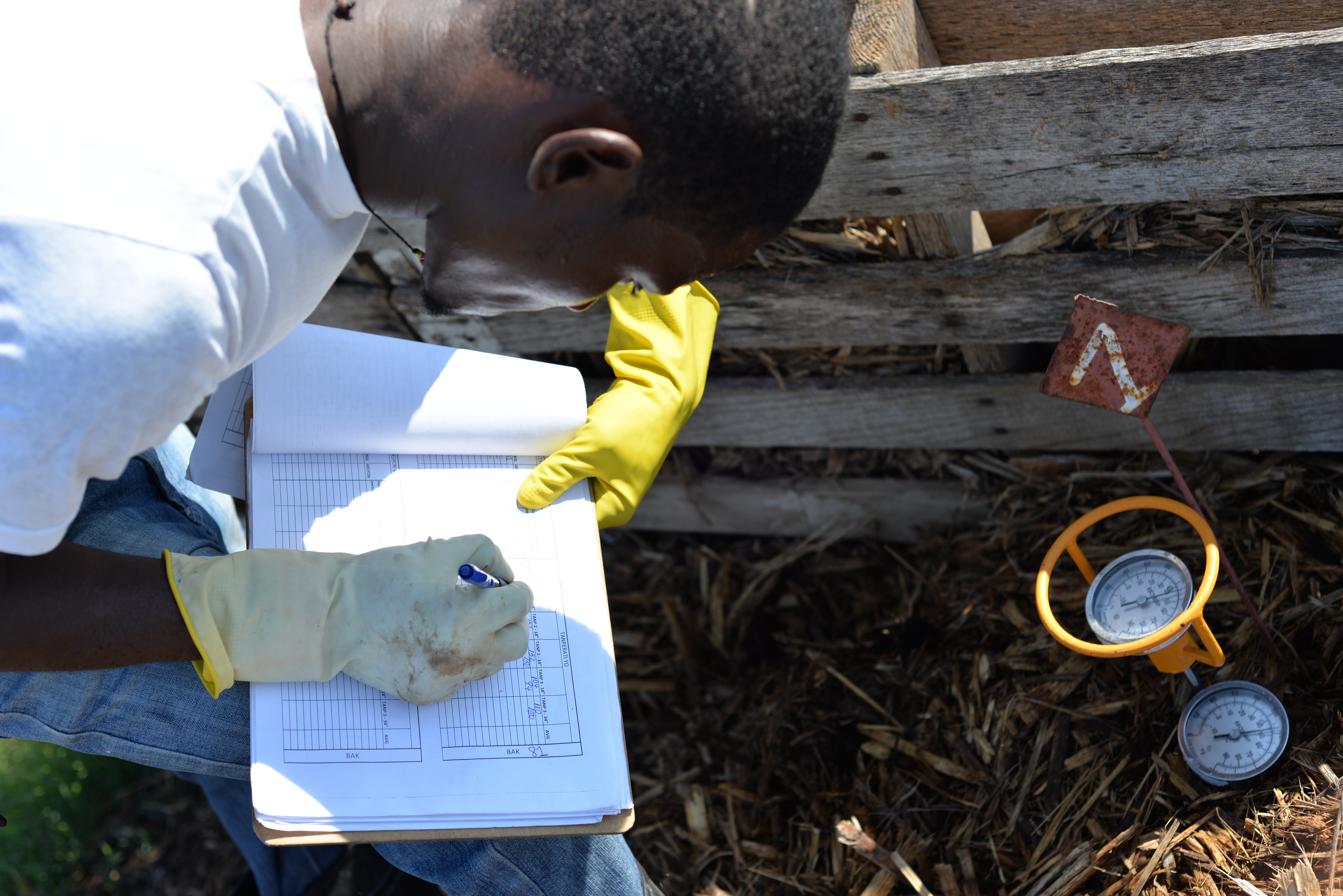 Haiti - Social Business UDDTs in Haiti.